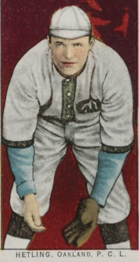 1911 T212 baseball card of Gus Hetling